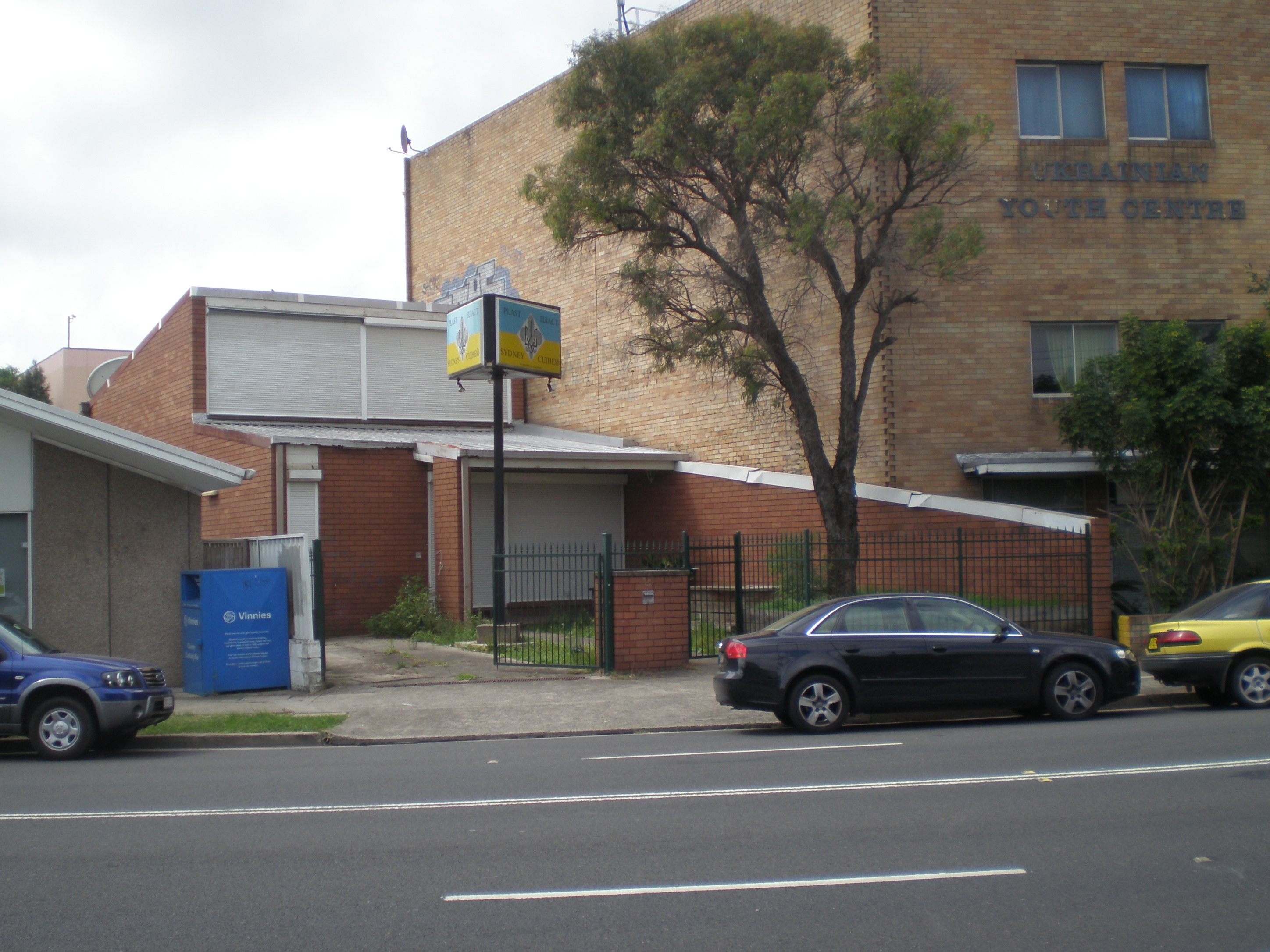 The former Ukrainian Scout Centre (Plast) in Lidcombe, New South Wales, Australia